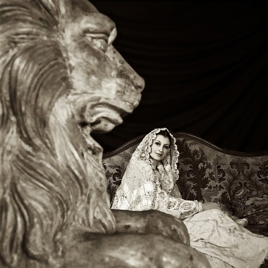 Portrait of Carla Fracci 1991